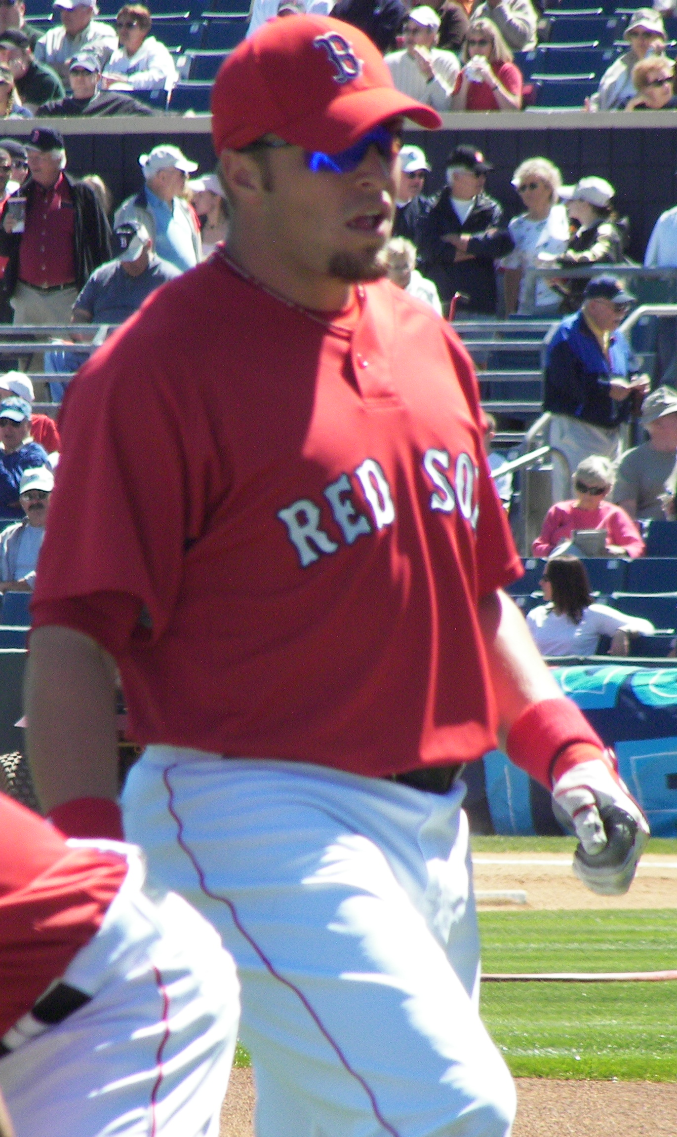 Boston Red Sox player Eric Hinske before a Red Sox/Los Angeles Dodgers spring training game at City of Palms Park in Fort Myers, Florida.